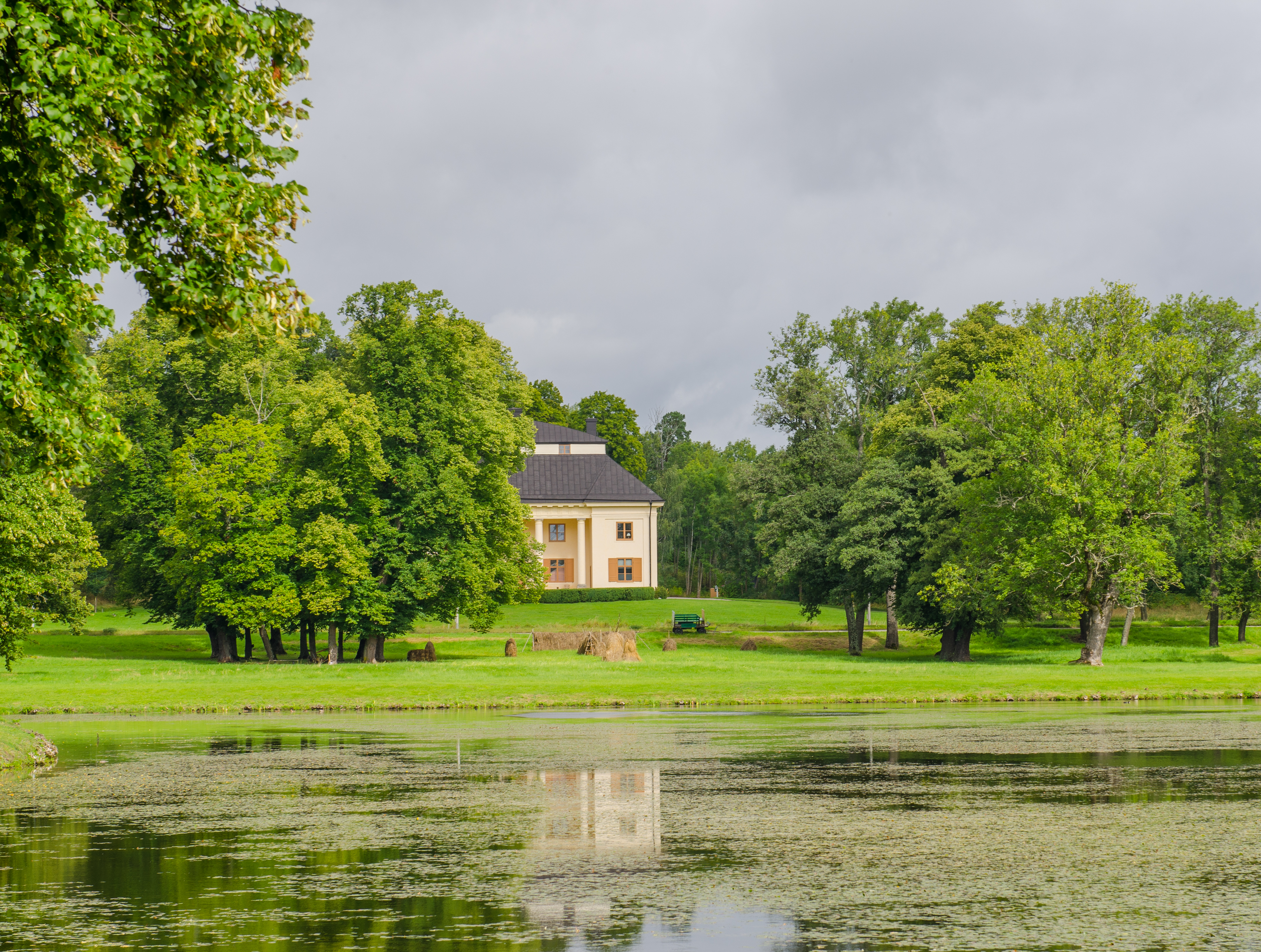 The English garden, Drottningholm.